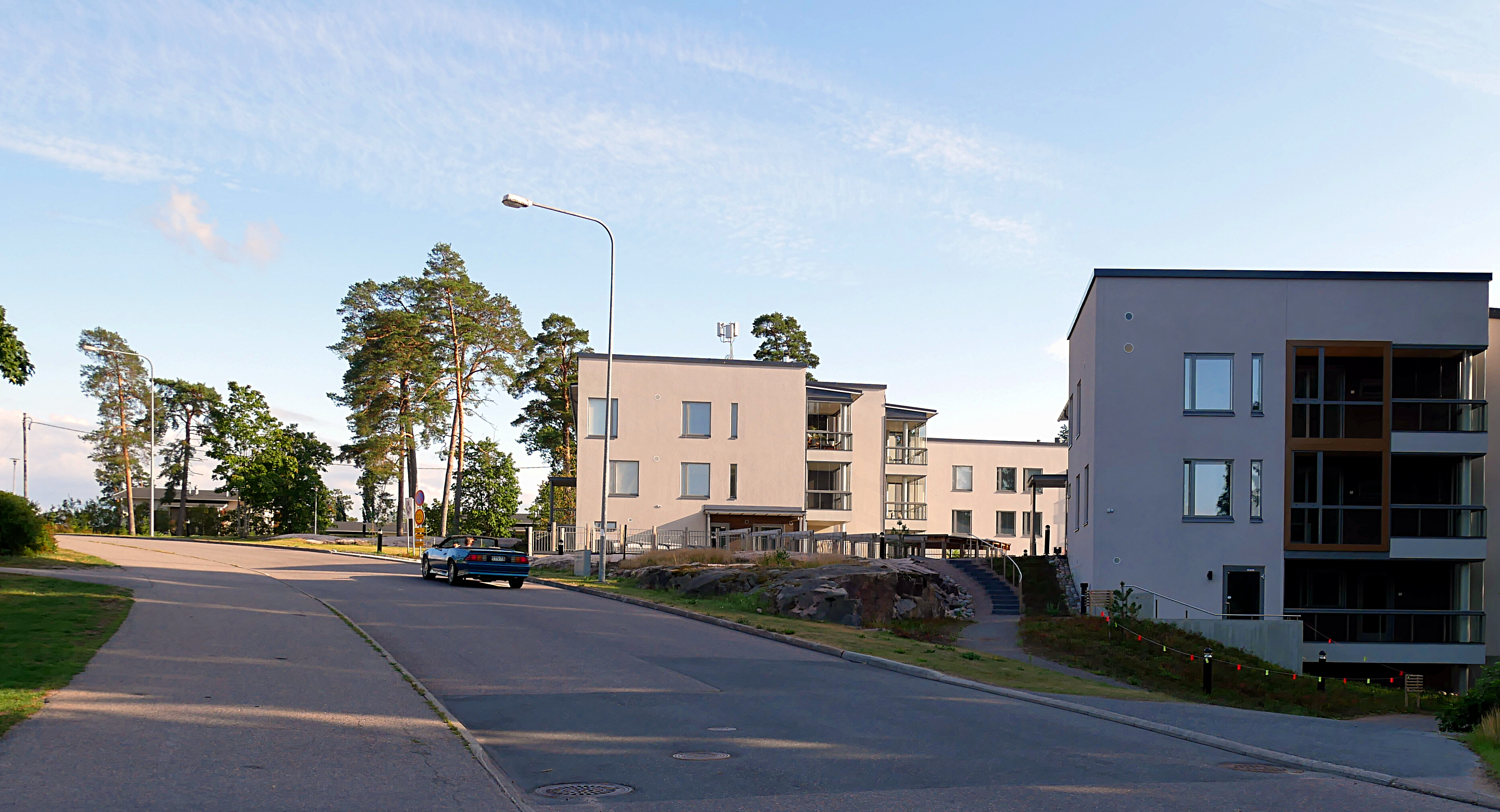 The residential street "Ristiniementie" in Laurinlahti, Espoo, Finland.